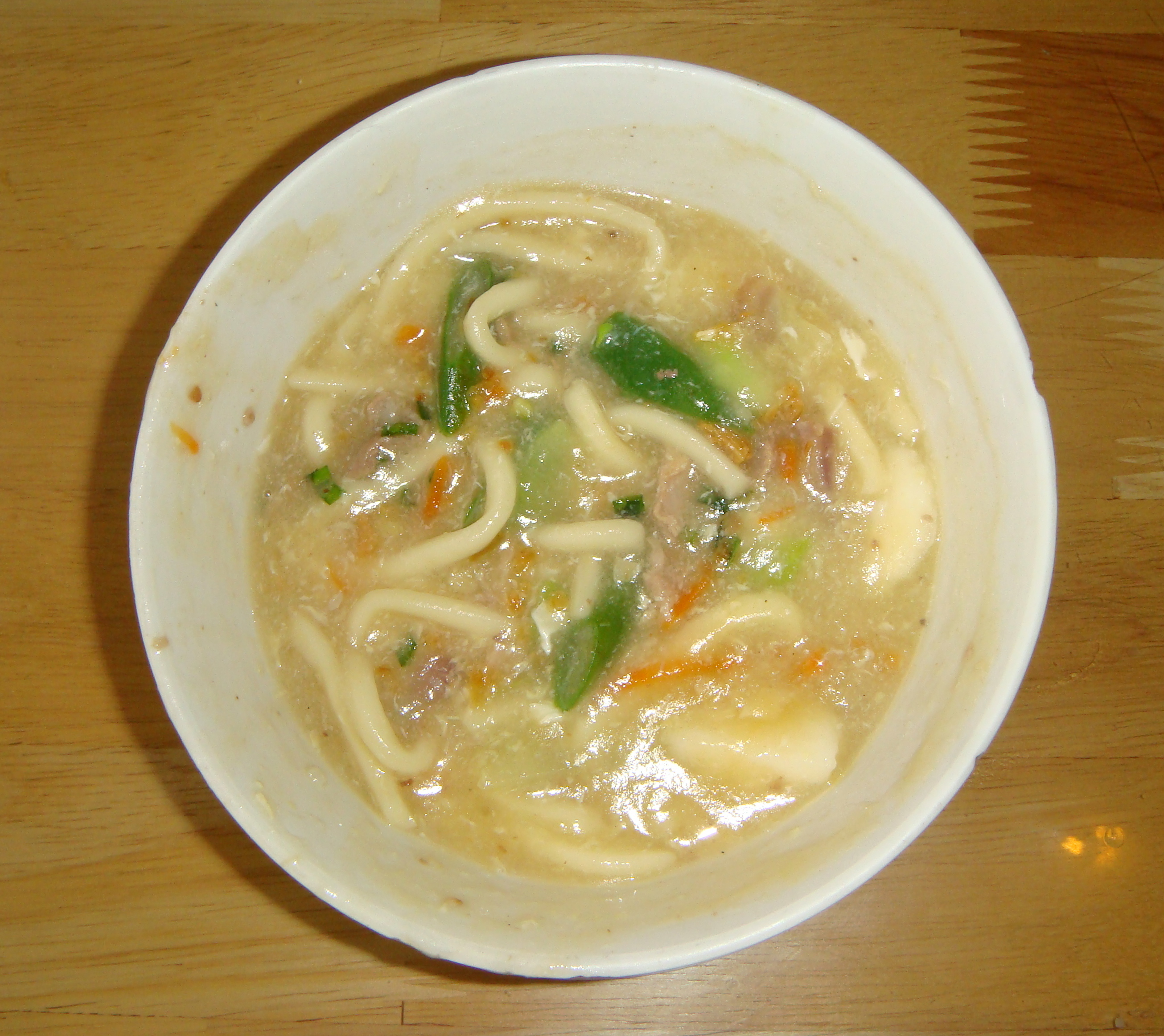 Lomi, Filipino noodle